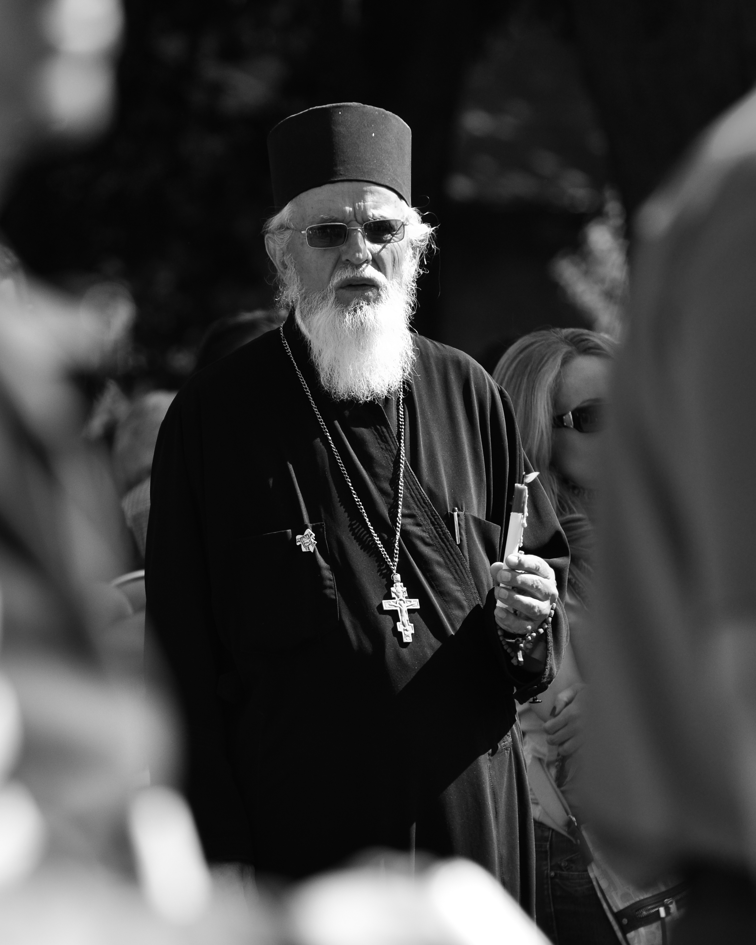 Ethnic Serbian spirtiual leader in Kosovo for the Vidovdan fest